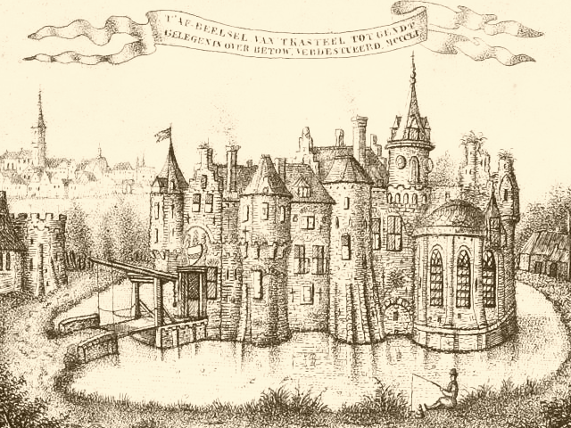 Castle of Gendt in the Overbetuwe (Netherlands) ca. 1360